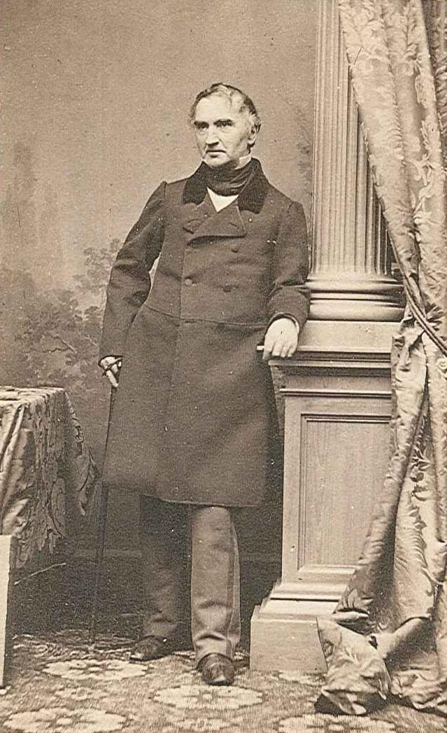 Justus von Liebig